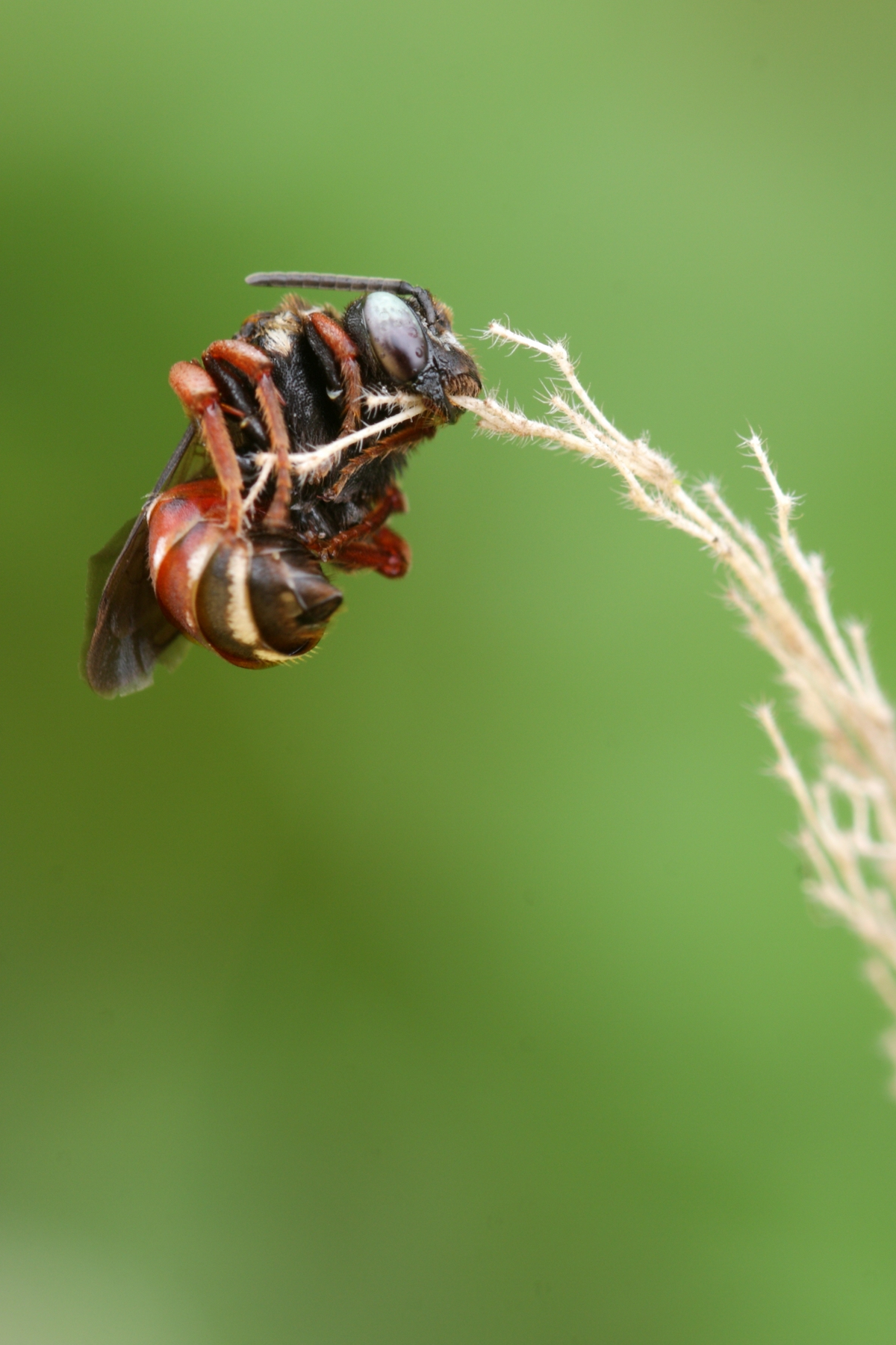 Epeoloides coecutiens, female